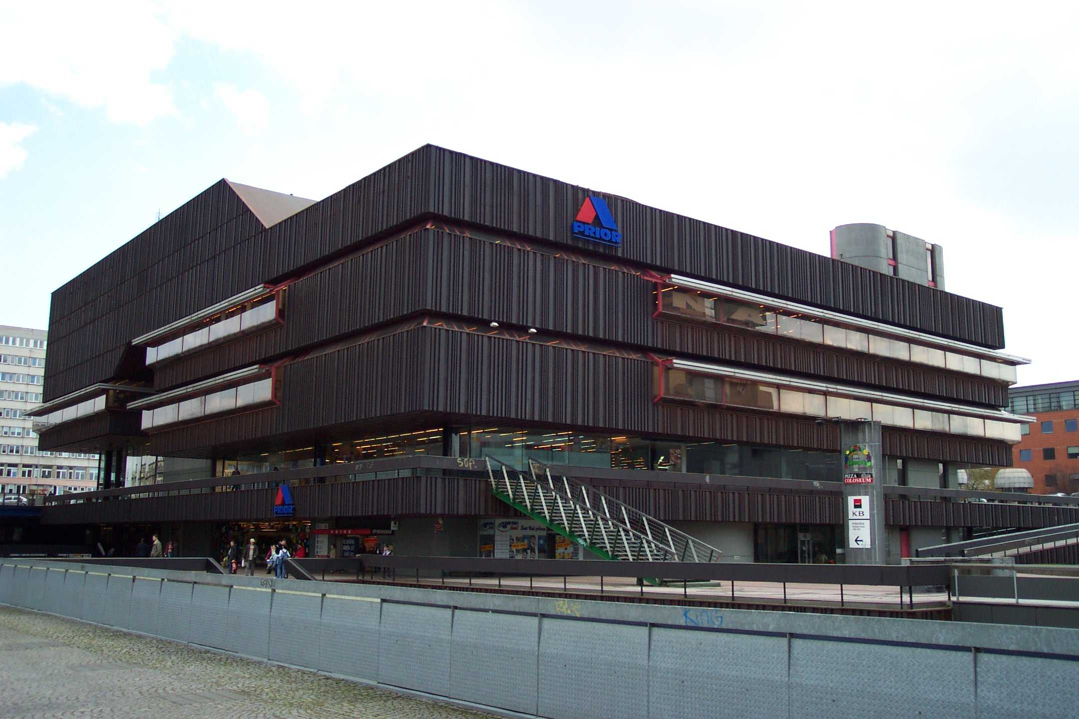 Dům Bytové Kultury shopping mall in Prague, completed in 1981 near Budějovická metro station, seen in 2006